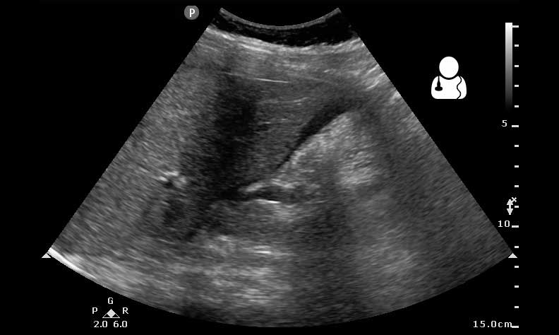 23 y/o female G1P0 taking fertility drugs complains of abdominal cramping and vaginal bleeding. File:UOTW 9 - Ultrasound of the Week 2.jpg